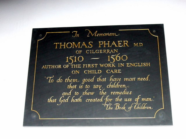 Memorial to Thomas Phaer of Cilgerran This memorial in the church is a modern one that commemorates an important C16 resident of the village, the first writer in English to publish a book on paediatrics, "The Boke of Chyldren", in 1545. Thomas Phaer, as well as practising medicine, was a lawyer, a translator of Virgil's Aeneid and MP for Cardigan from 1555 to 1559. He lived at Fforest in Cilgerran, where he was constable of the castle, and died there leaving 3 daughters. He was described by the C16 local historian George Owen as "a man honoured for his learninge, commended for his governmente,and beloved for his pleasante natural conceiptes; he chose Pembrokeshire for his earthly place, where he lived worshipfully, and ended his days to the greaffe of all good men at the Forest of Cilgerran."